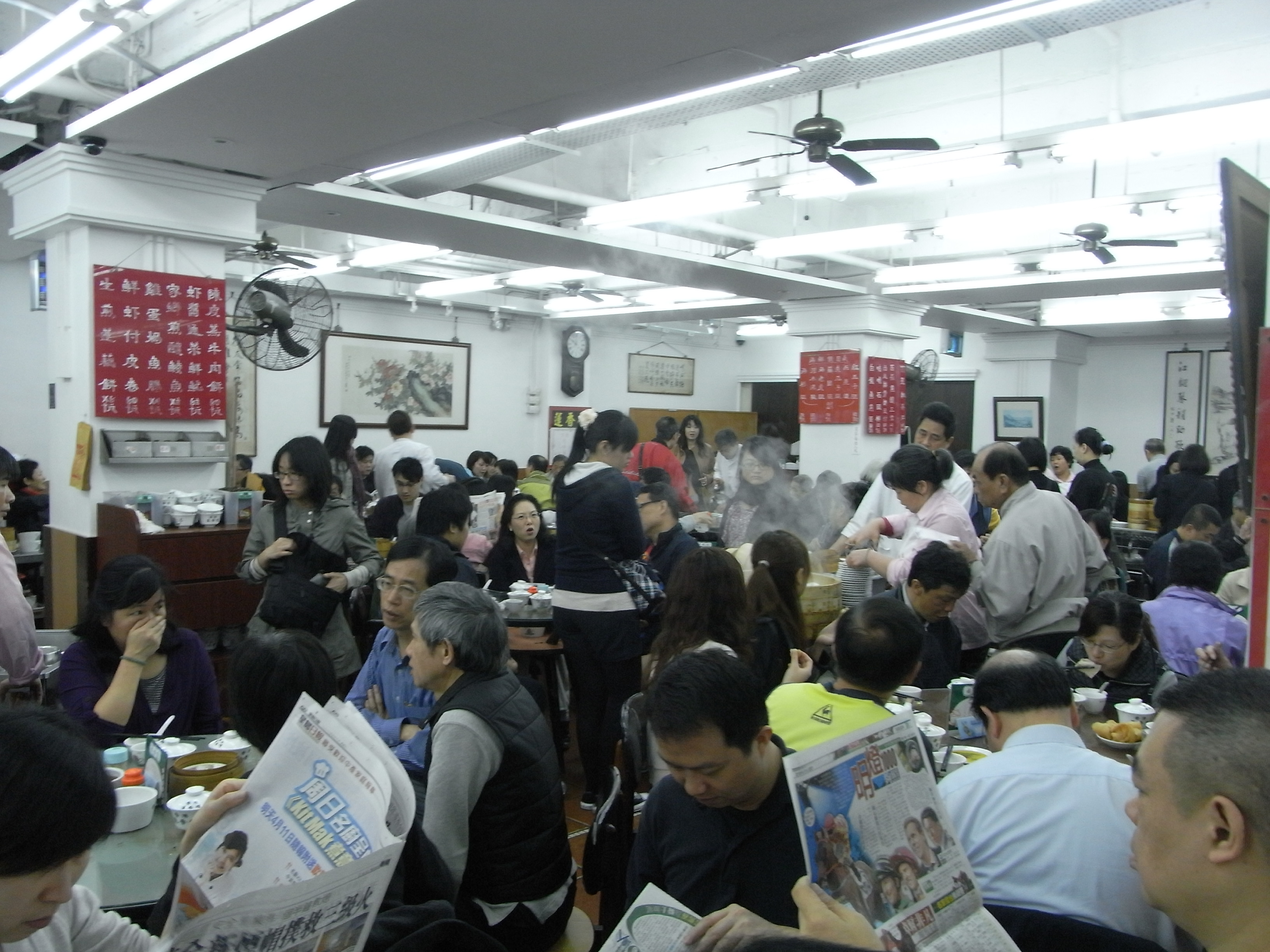 香港中環的蓮香樓